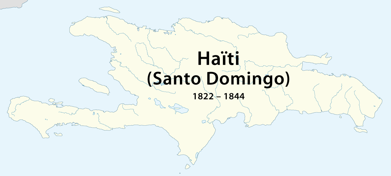 History of the teritorial changes of Hispaniola